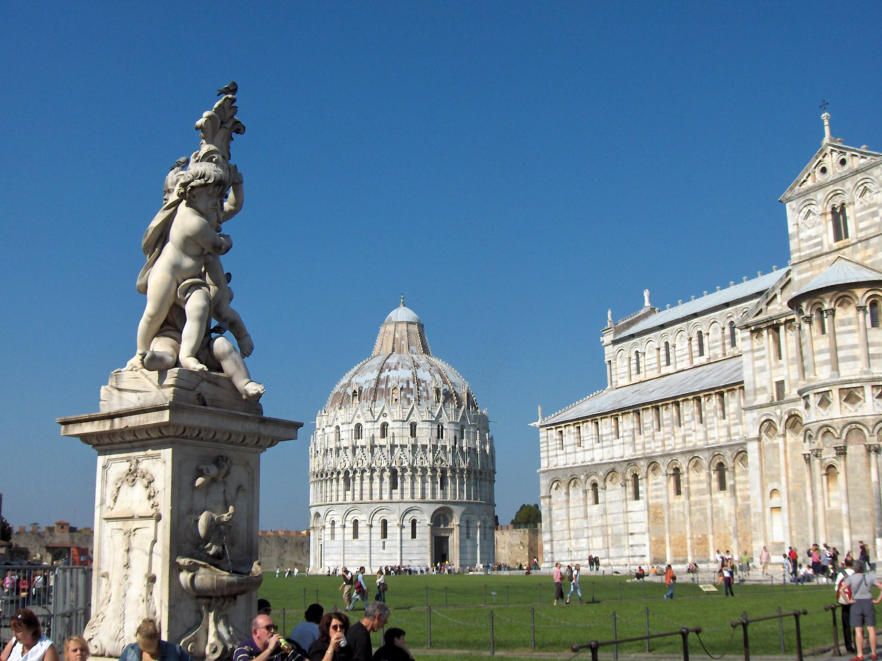 Pisa, Italy - Baptistry and Duomo Own work - photo made by Georges Jansoone on 10 October 2005